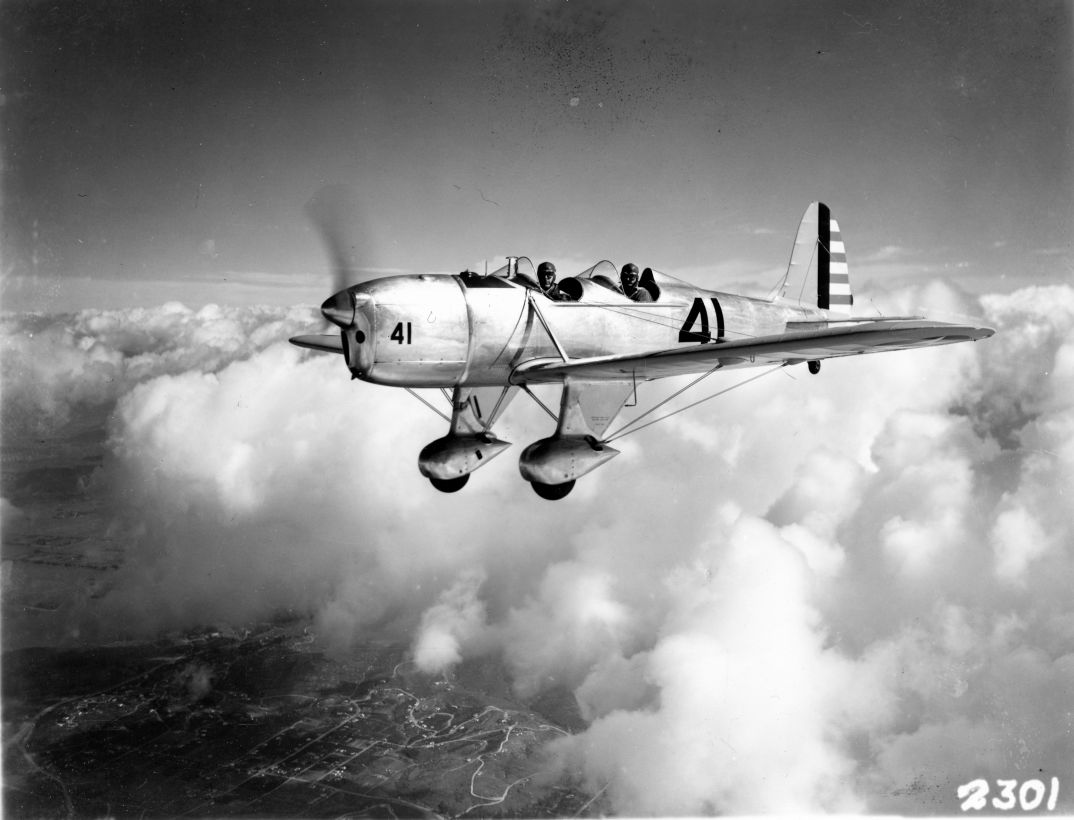 Ryan PT-20 over San Diego; Instructor Paul Wilcox, front cockpit